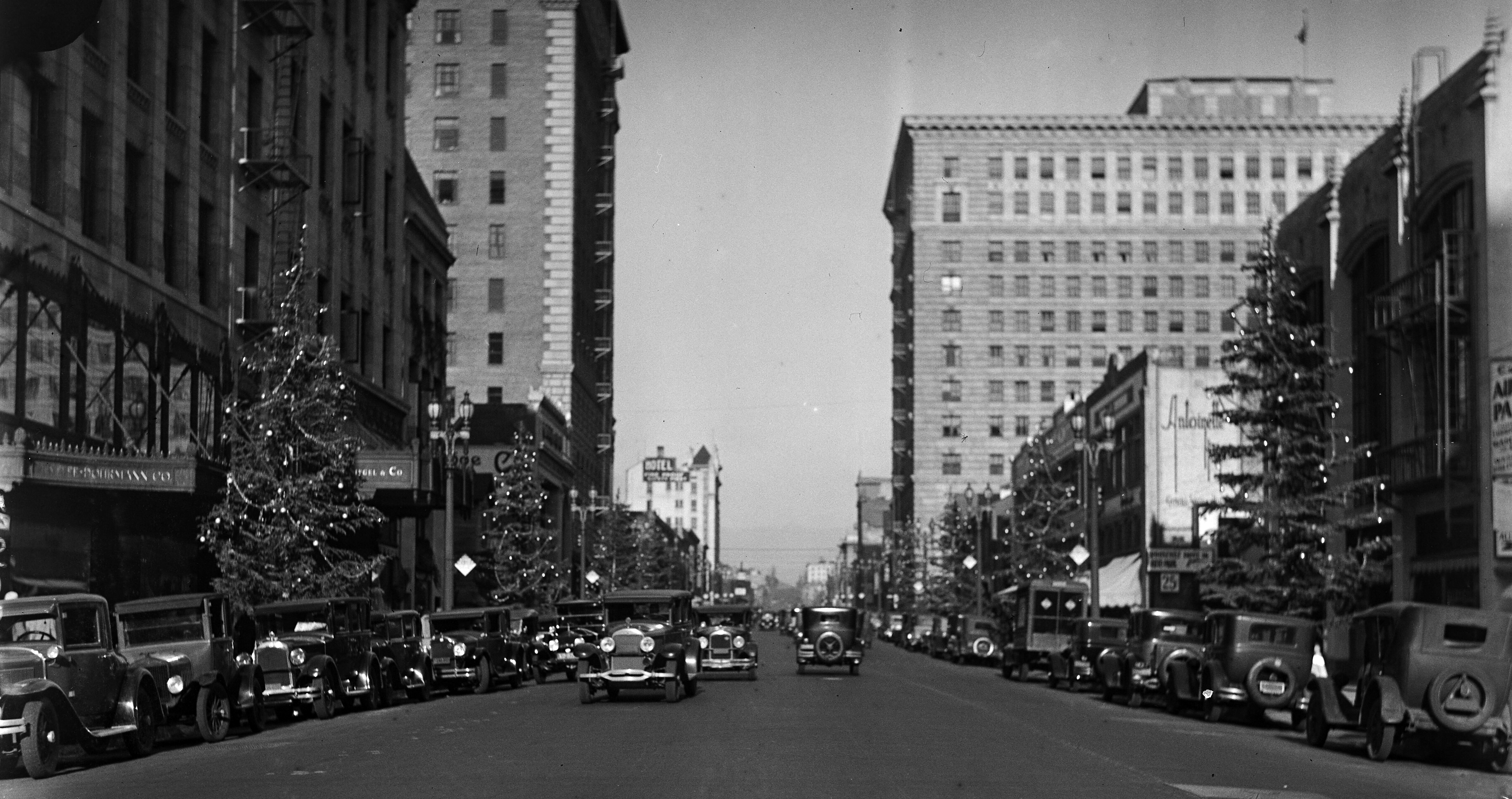 Christmas trees and automobiles lining street in downtown Los Angeles, circa 1928 Publication:Los Angeles Times Publication date:1928 Notes: Typed note attached to negative states "Xmas Trees" Source:Los Angeles Times photographic archive, Digital collections — UCLA Library.